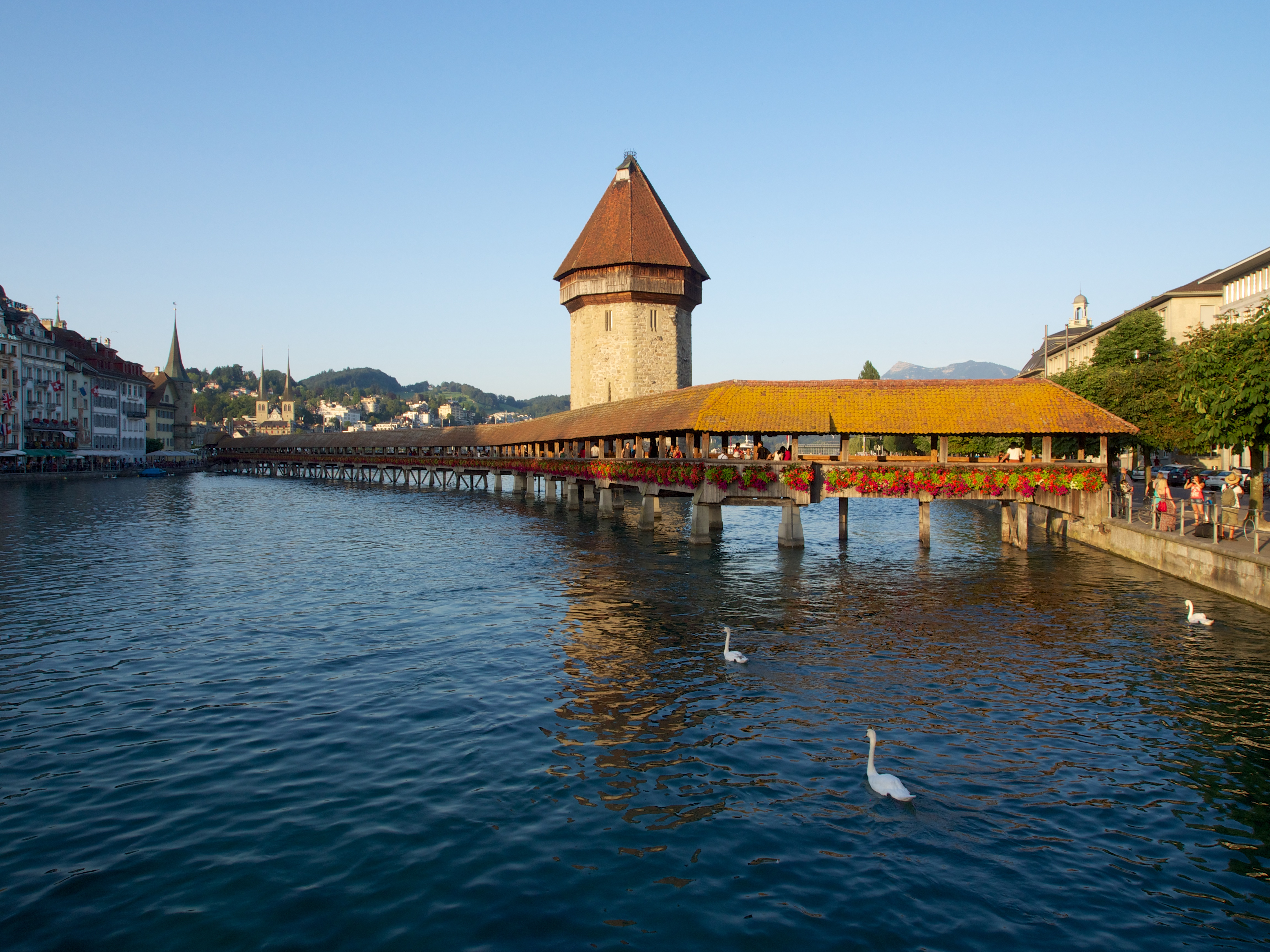 Kapellbrücke in Lucerne, Switzerland